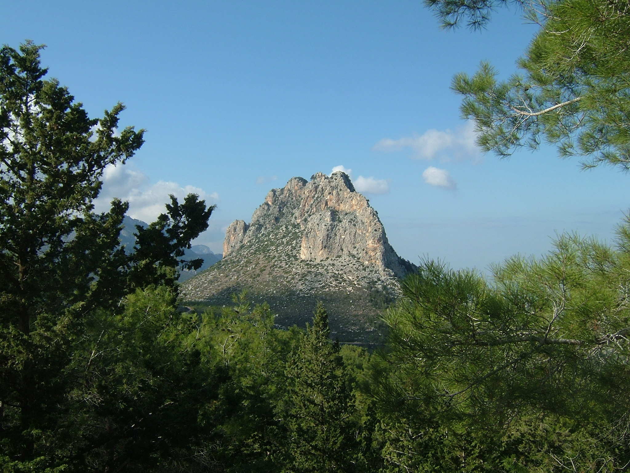 View of the summit of Pentadaktylos (altitude 740 m)